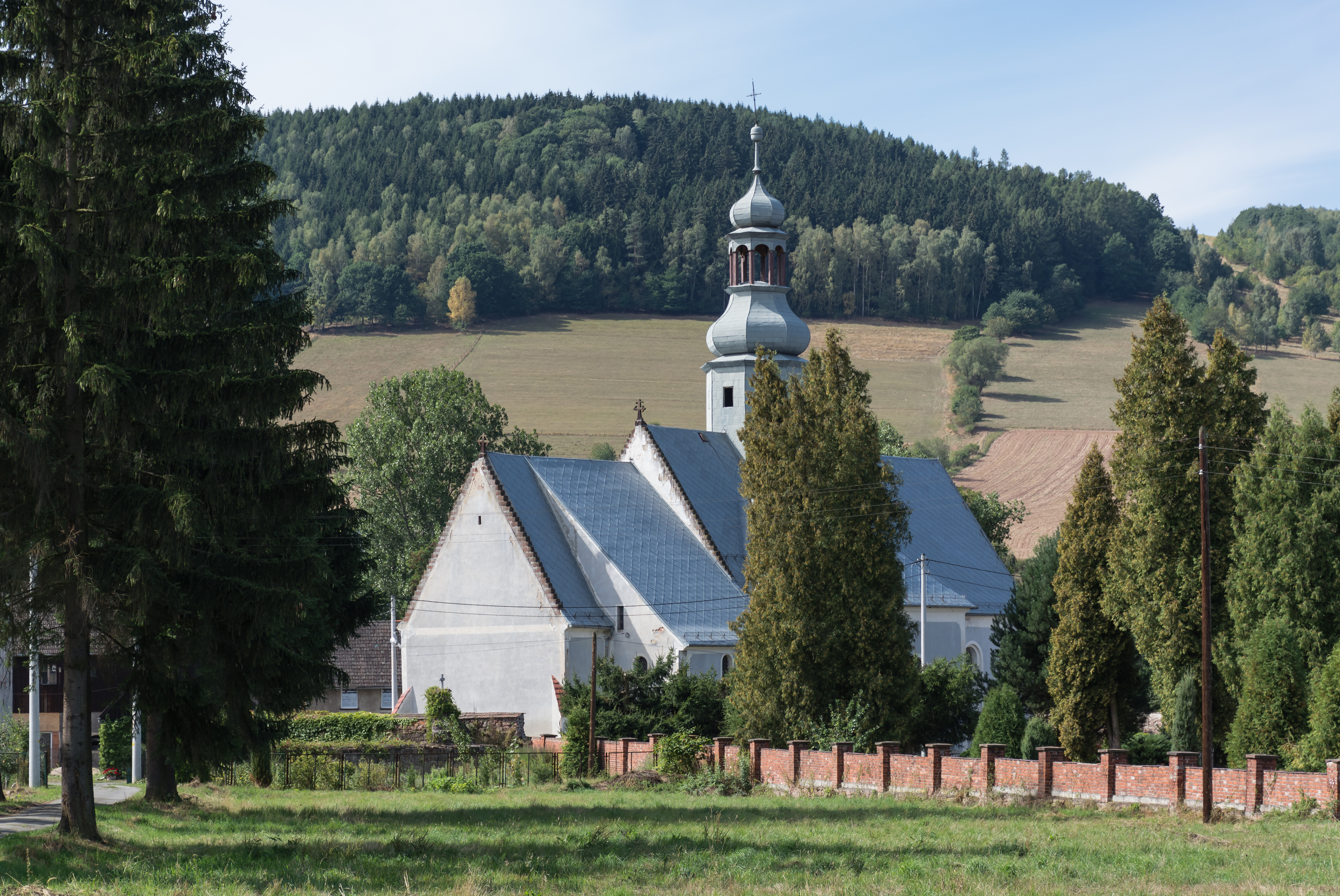 Saint Mary Magdalene Church in Ścinawka Średnia